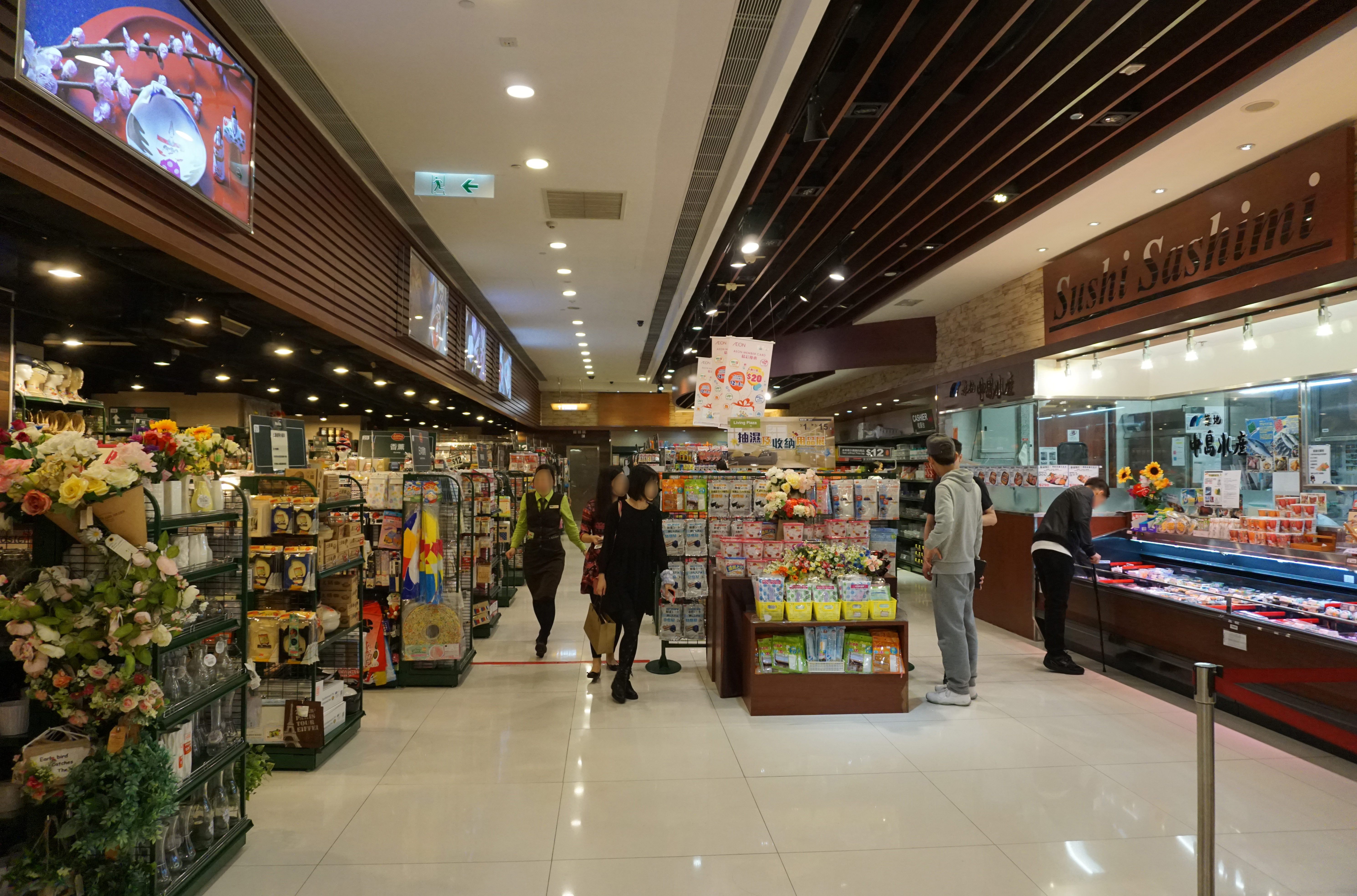 The ONE in Tsim Sha Tsui, Hong Kong.